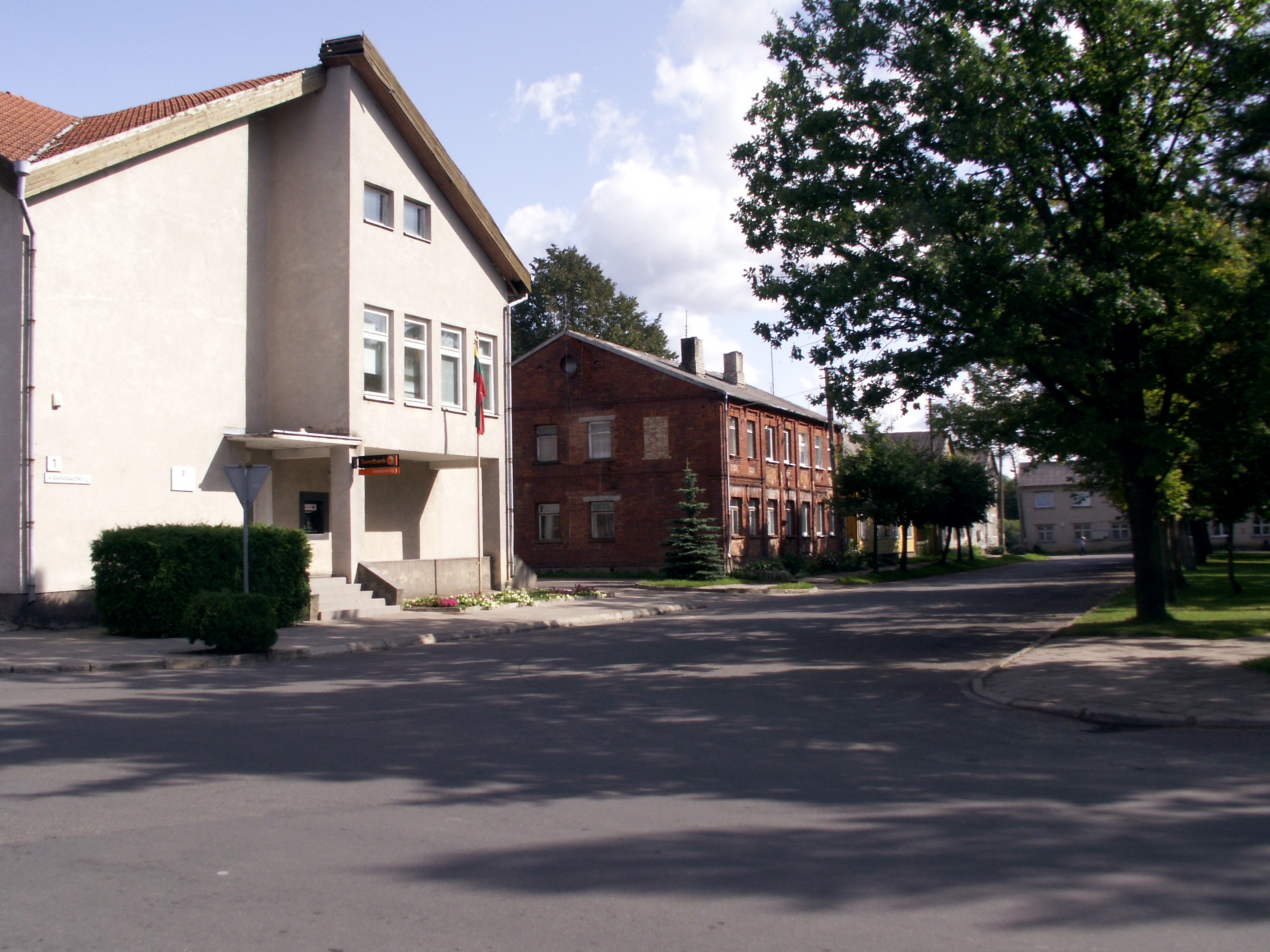 Seda, Mažeikiai district, Lithuania